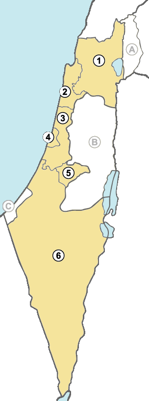 Israel districts numbered